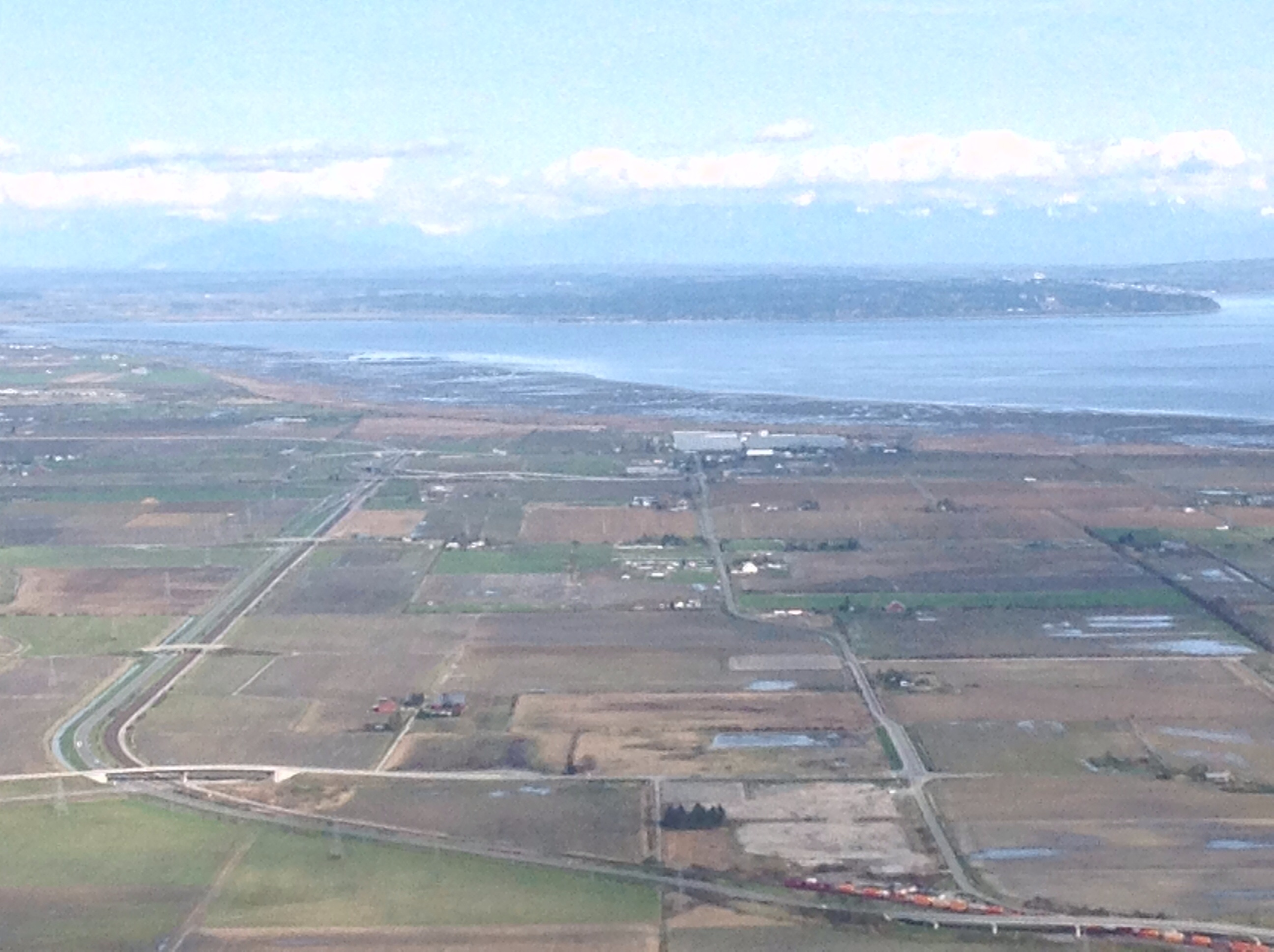 Aerial view of Boundary Bay as seen from above Delta, British Columbia along its western shore.